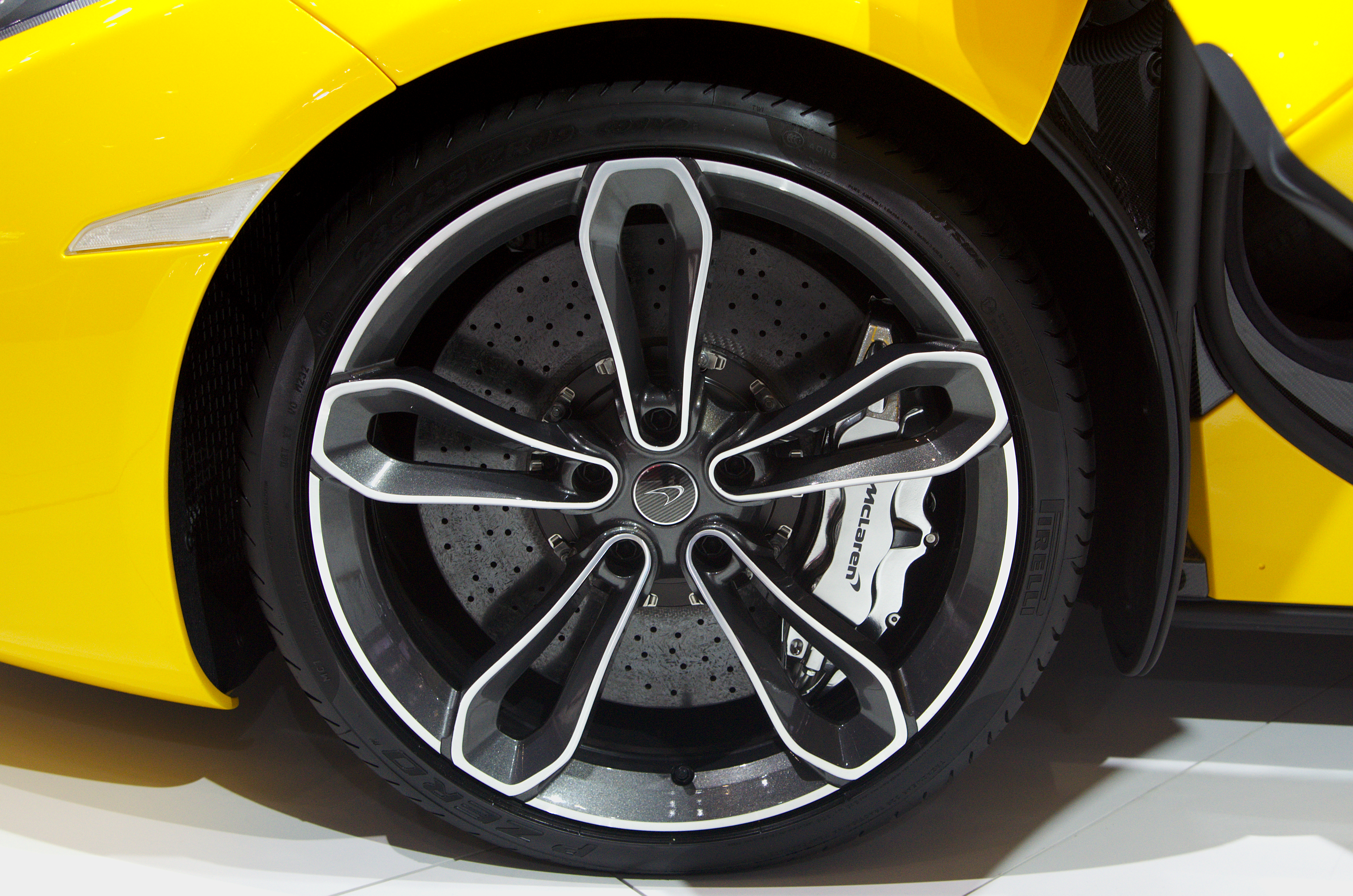 Geneva MotorShow 2013 - McLaren 12C Spider tyre